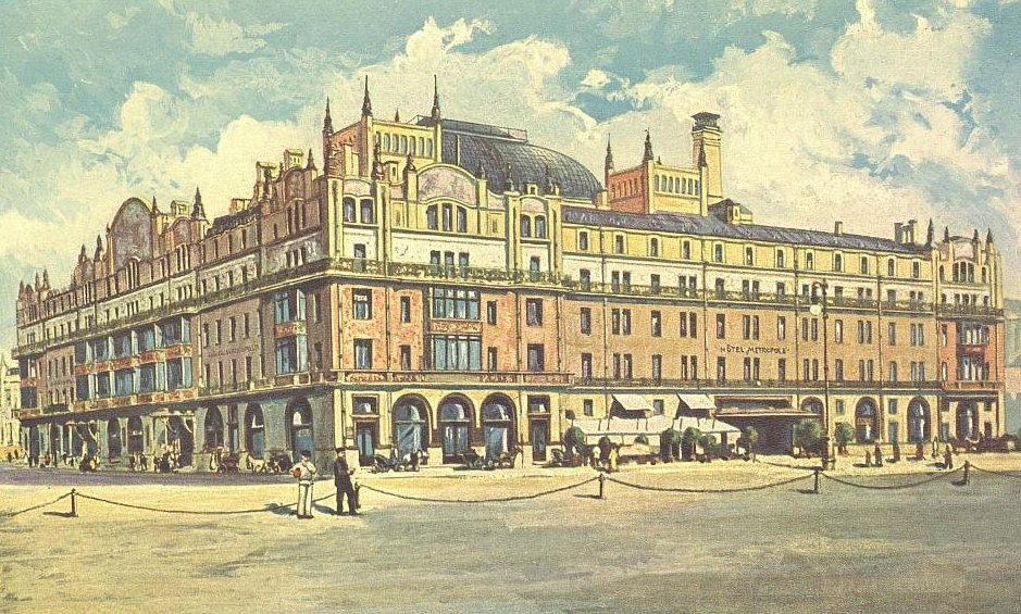 Hotel "Metropol", Moscow, Russia